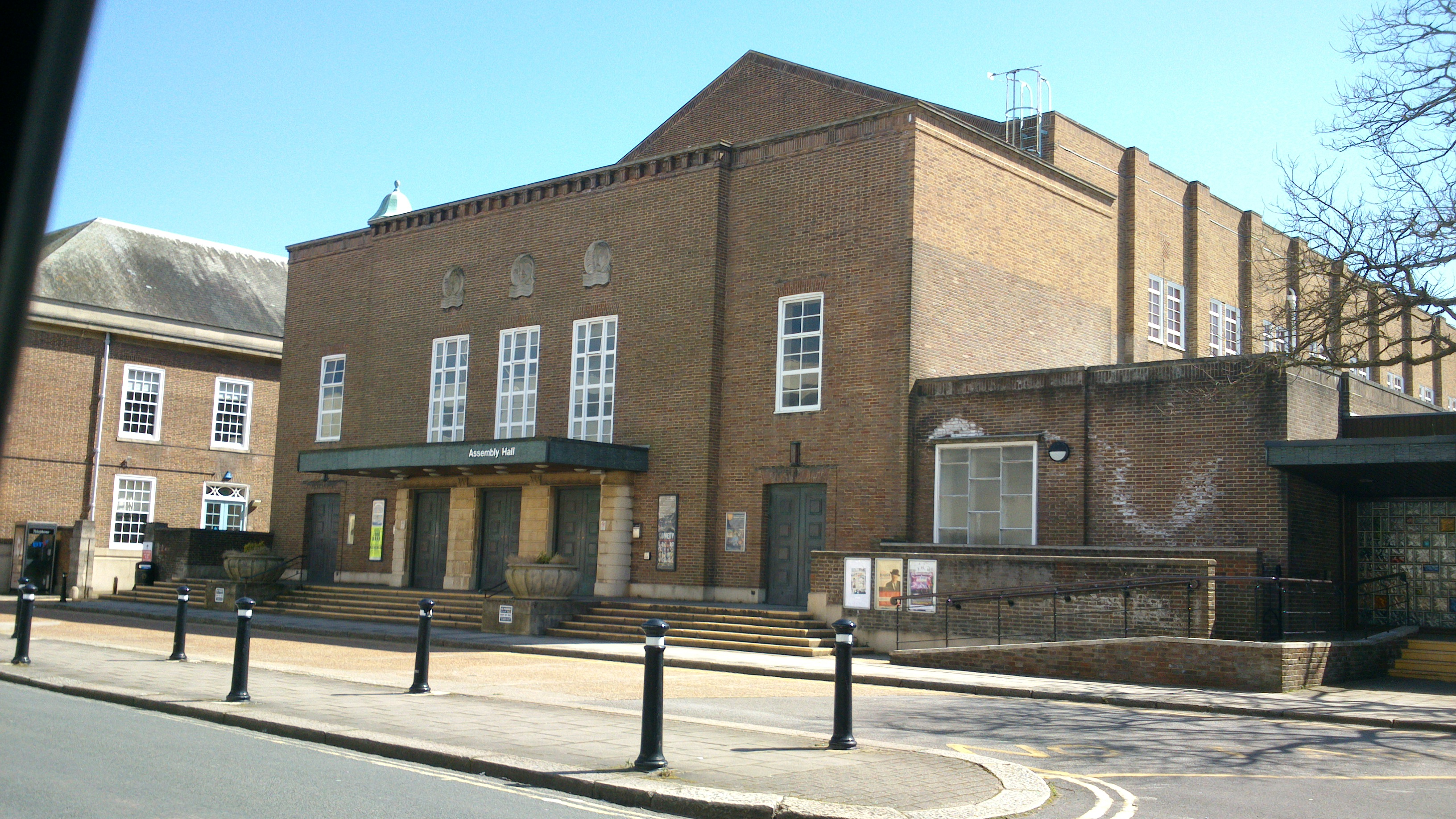 Assembly Hall from the south west